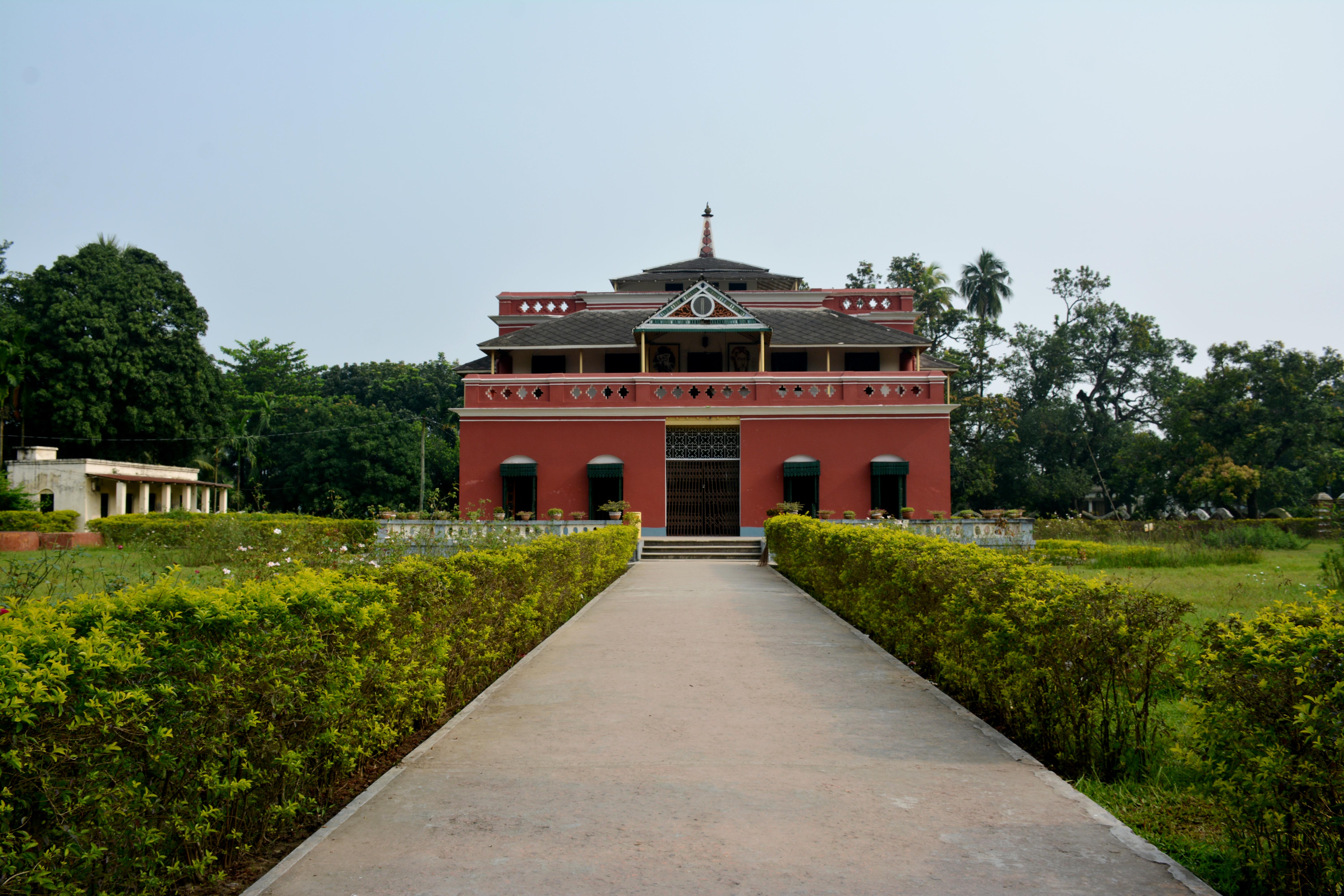 Shilaidaha Kuthibadi is a place in Kumarkhali Upazila of Kushtia District in Bangladesh. Rabindranath Tagore lived a part of life here and created some of his memorable poems while living here.